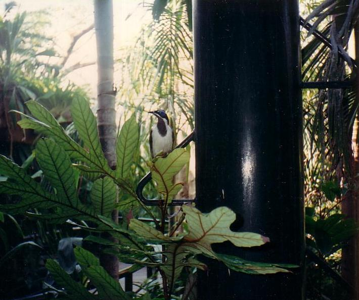 Blue-faced Honeyeater at "Gondwana" ( this photograph was taken by Figaro )